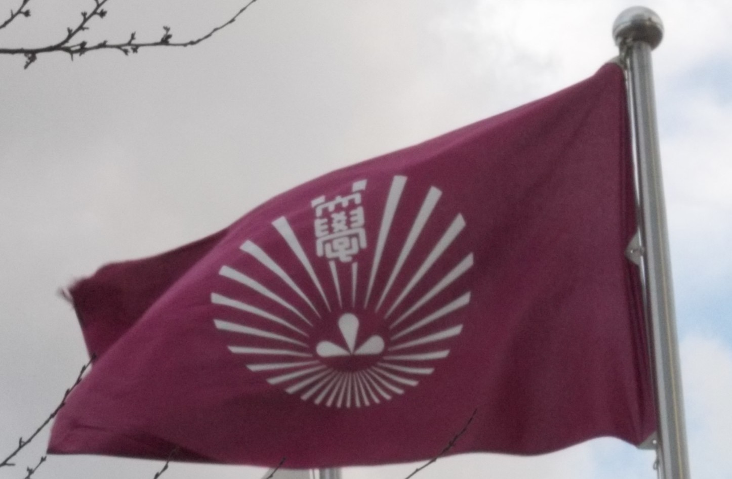 pennant